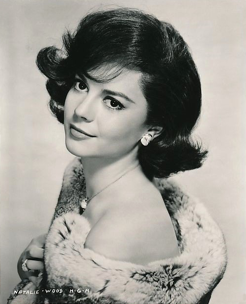 Publicity photograph of Natalie Wood issued by MGM.